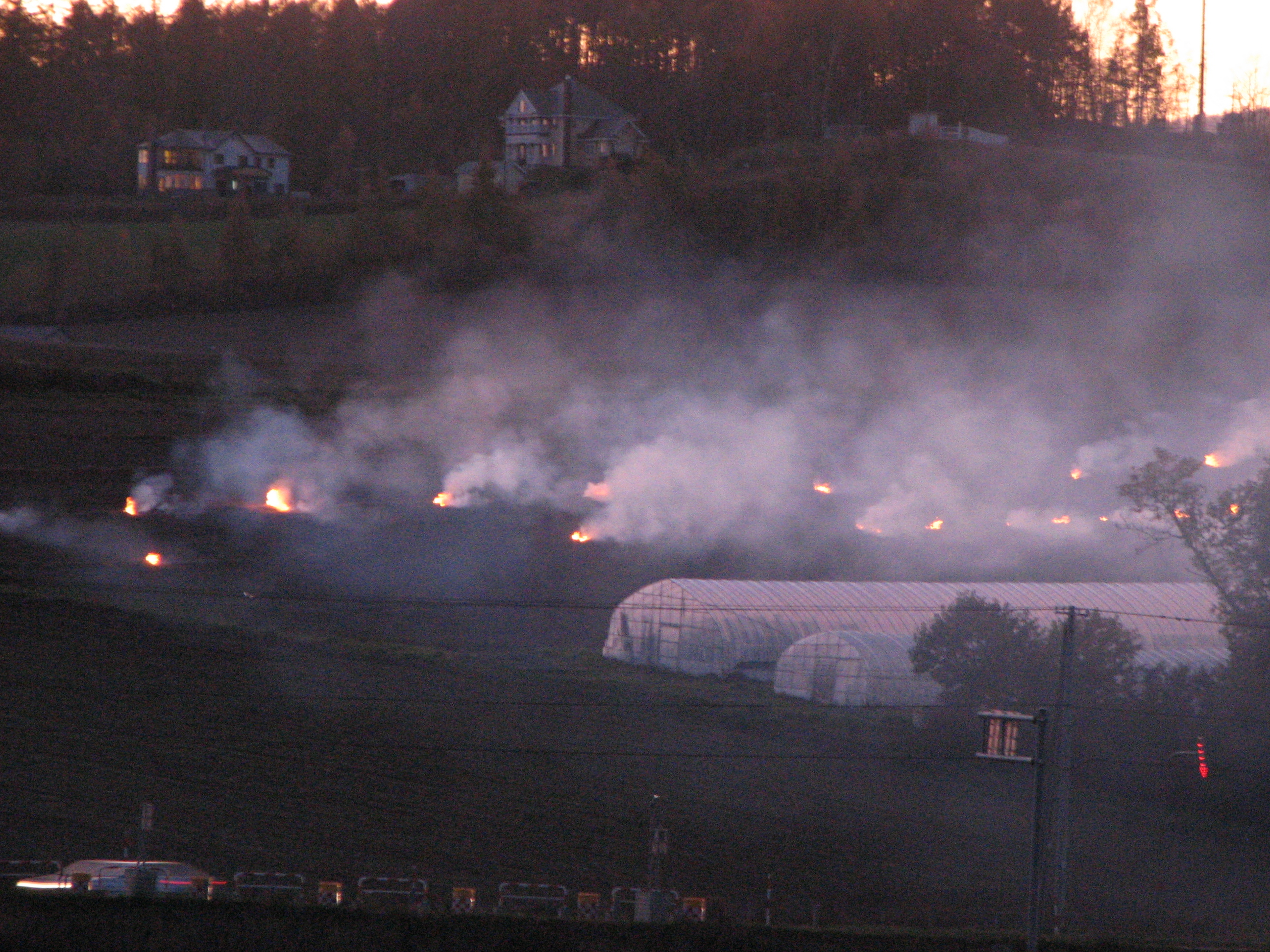 Open-air burning